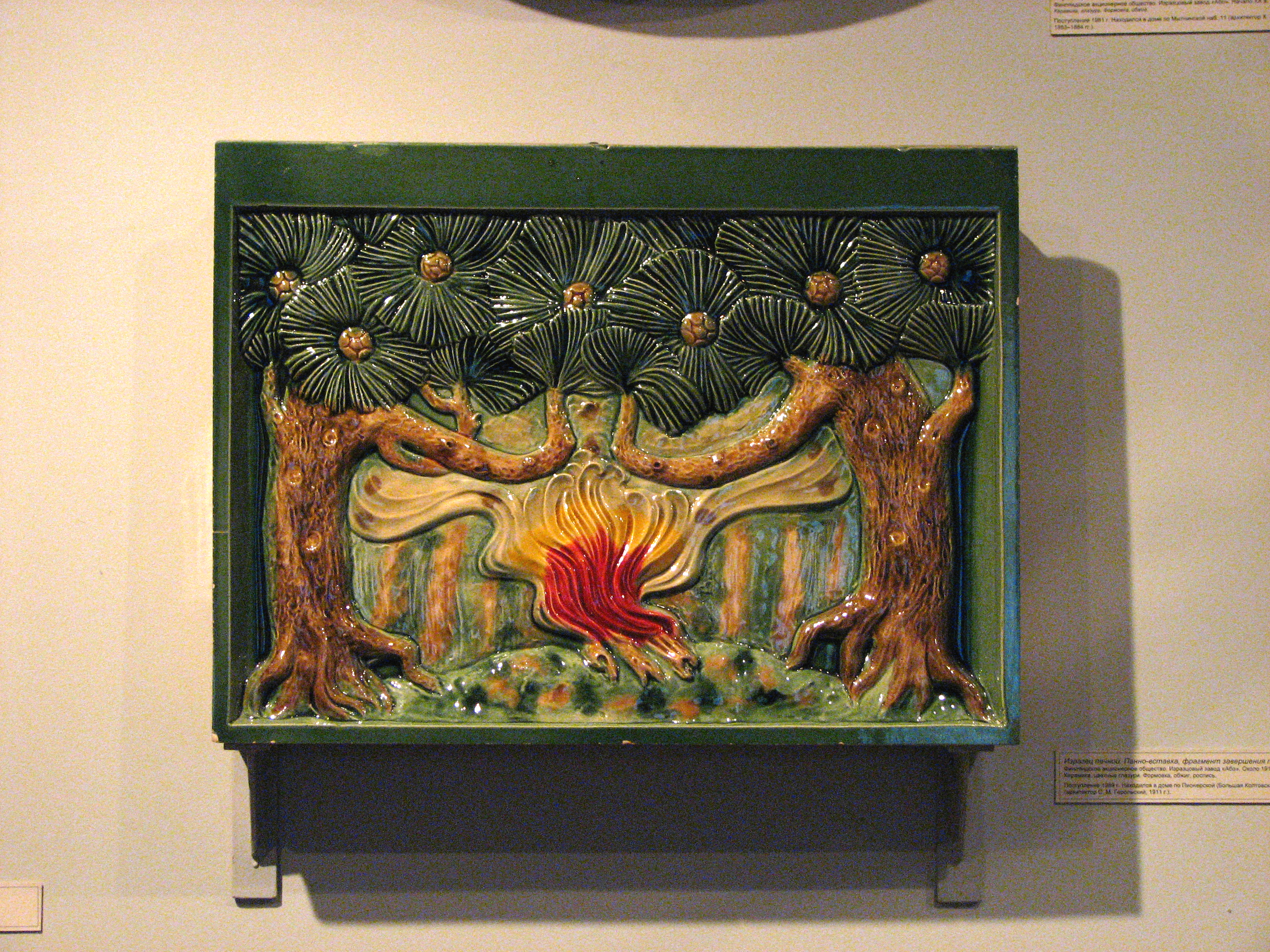 Saint Petersburg. Exposition «Old Petersburg» (in the Engineering house of the Peter and Paul Fortress). Oven tile. The central insert-panel. It is made at tile factory "Abo" (1911; the Finnish joint-stock company). Was in the house on the Bolshaya Koltovskaya street, 38.